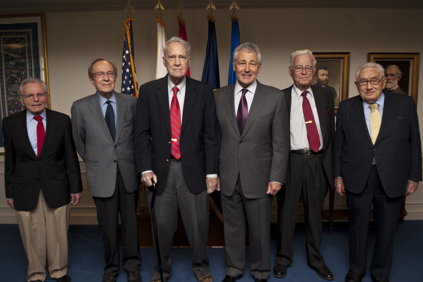 Secretary of Defense Chuck Hagel, third from right, and former Secretaries of Defense Frank Carlucci, left, William Perry, second from left, James Schlesinger, third from left, Harold Brown, second from right, and former Secretary of State Henry Kissinger pose for a group photograph after the meeting of the Defense Policy Board in the Pentagon in Arlington, Va. on June 18, 2013. Hagel hosted the gathering to discuss the challenges faced by the Department of Defense and to get some prospective from his predecessors.